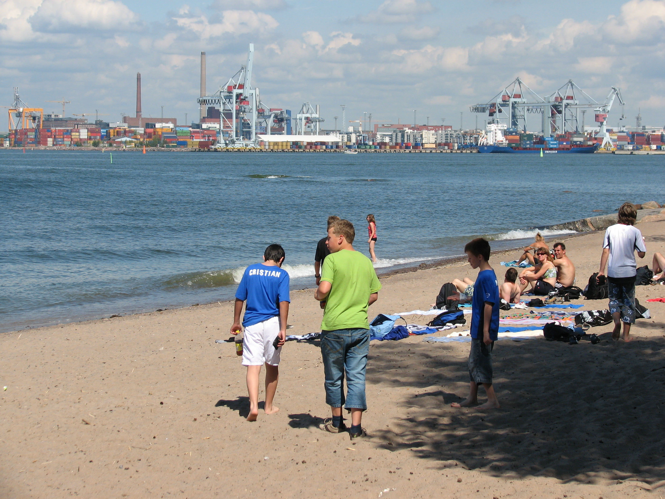 People sunbathing on the western and larger island of Pihlajasaari, Helsinki, Finland. The Port of Helsinki and the Helsinki New Shipyard are in the background, north over the Baltic Sea. Photograph taken by me on July 13, 2007.